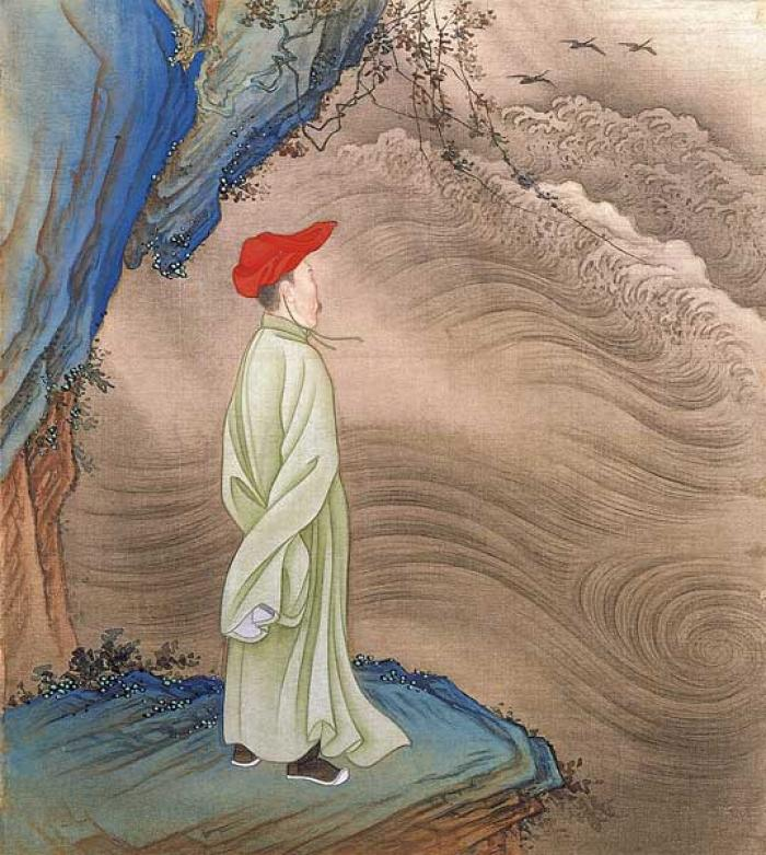 From Album of the Yongzheng Emperor in Costumes, by anonymous court artists, Yongzheng period (1723—35). One of 14 album leaves, colour on silk. The Palace Museum, Beijing.